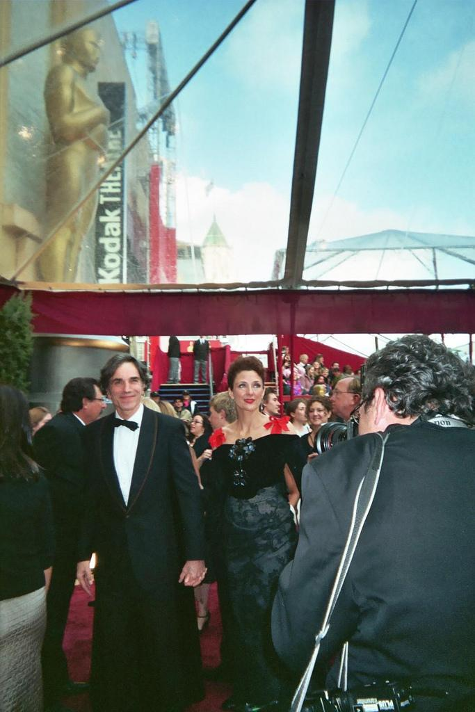 Actor Daniel Day-Lewis ("There Will Be Blood") and wife at 80th Academy Awards.